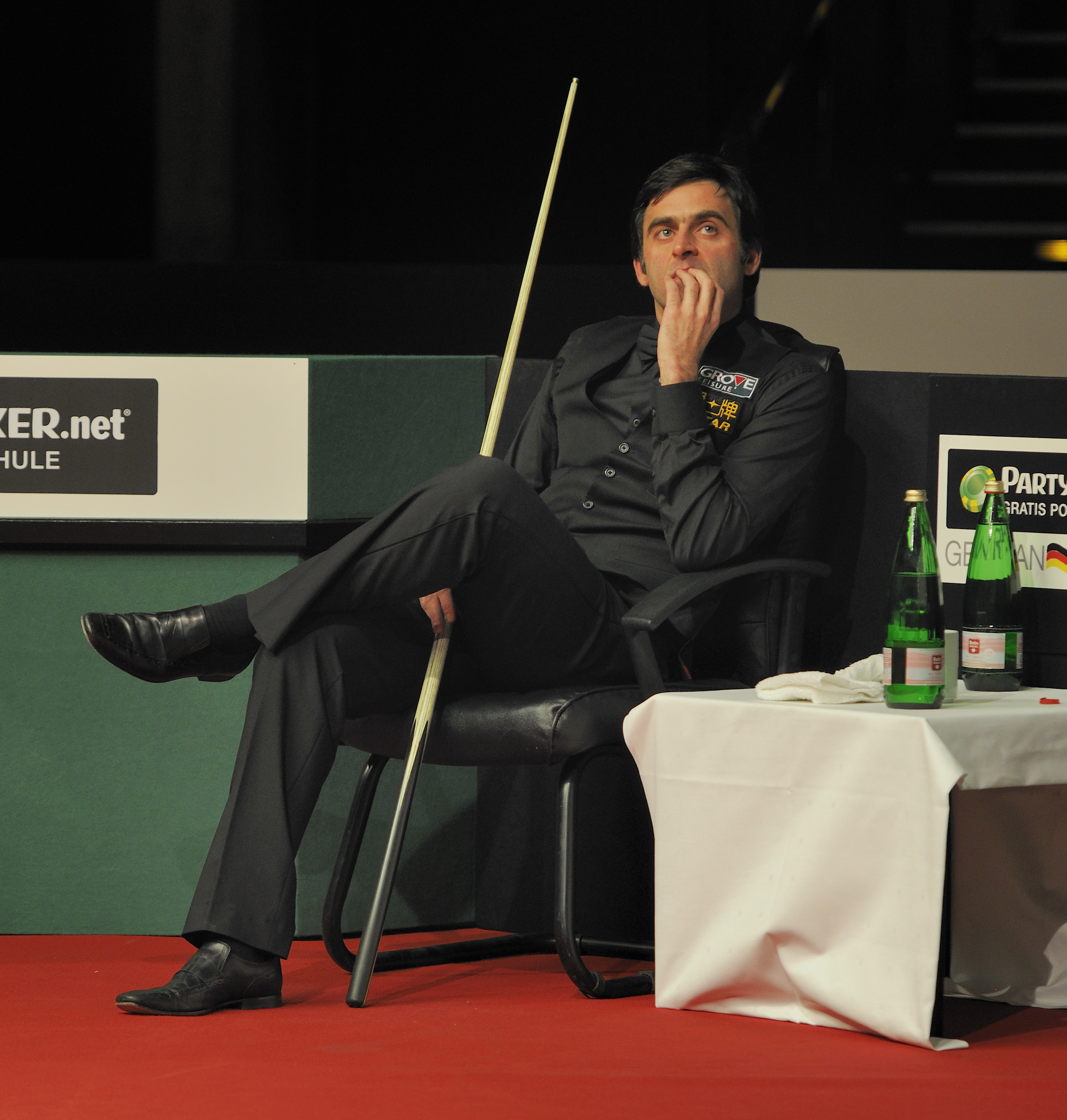 Picture taken in Berlin during the Snooker German Masters in 2011. Ronnie O’Sullivan.